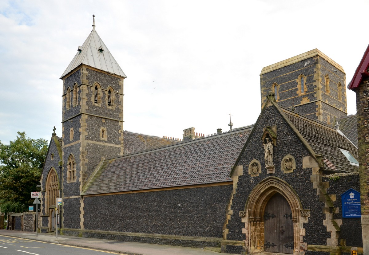 Church of St Augustine of England (roman Catholic) with Cloisters Attached